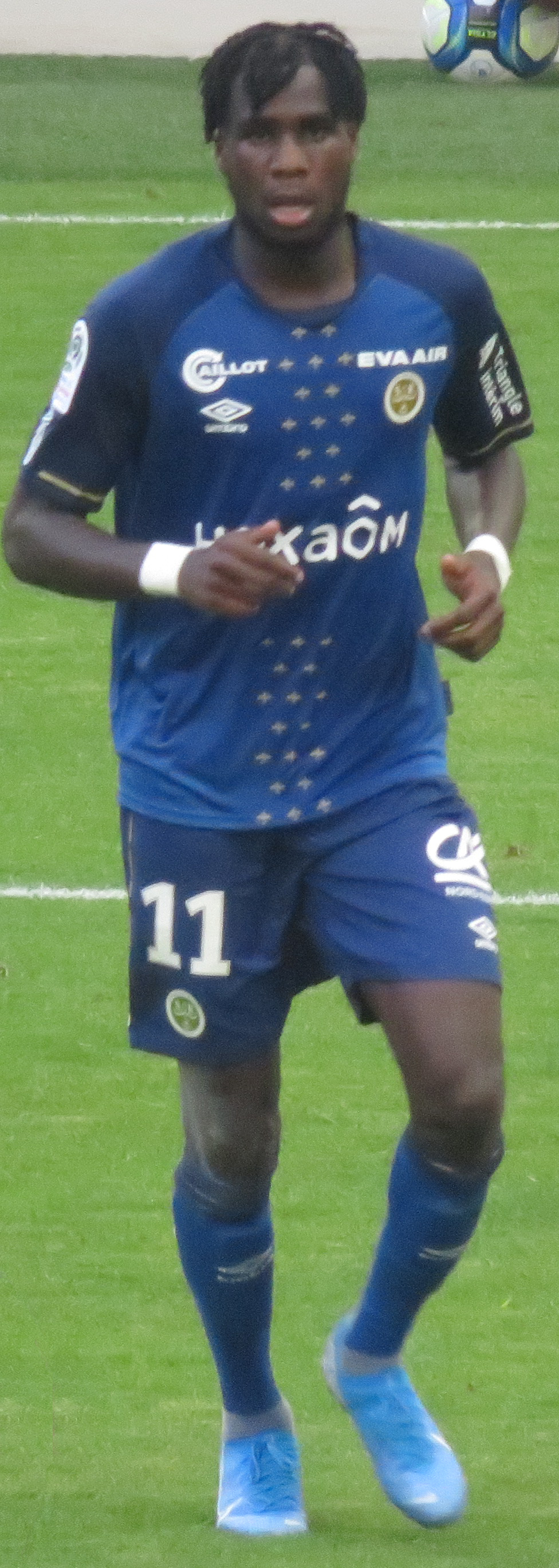 Boulaye Dia before a corner in the 85th minute of play on Saturday, August 10 against Olympique Marseille.